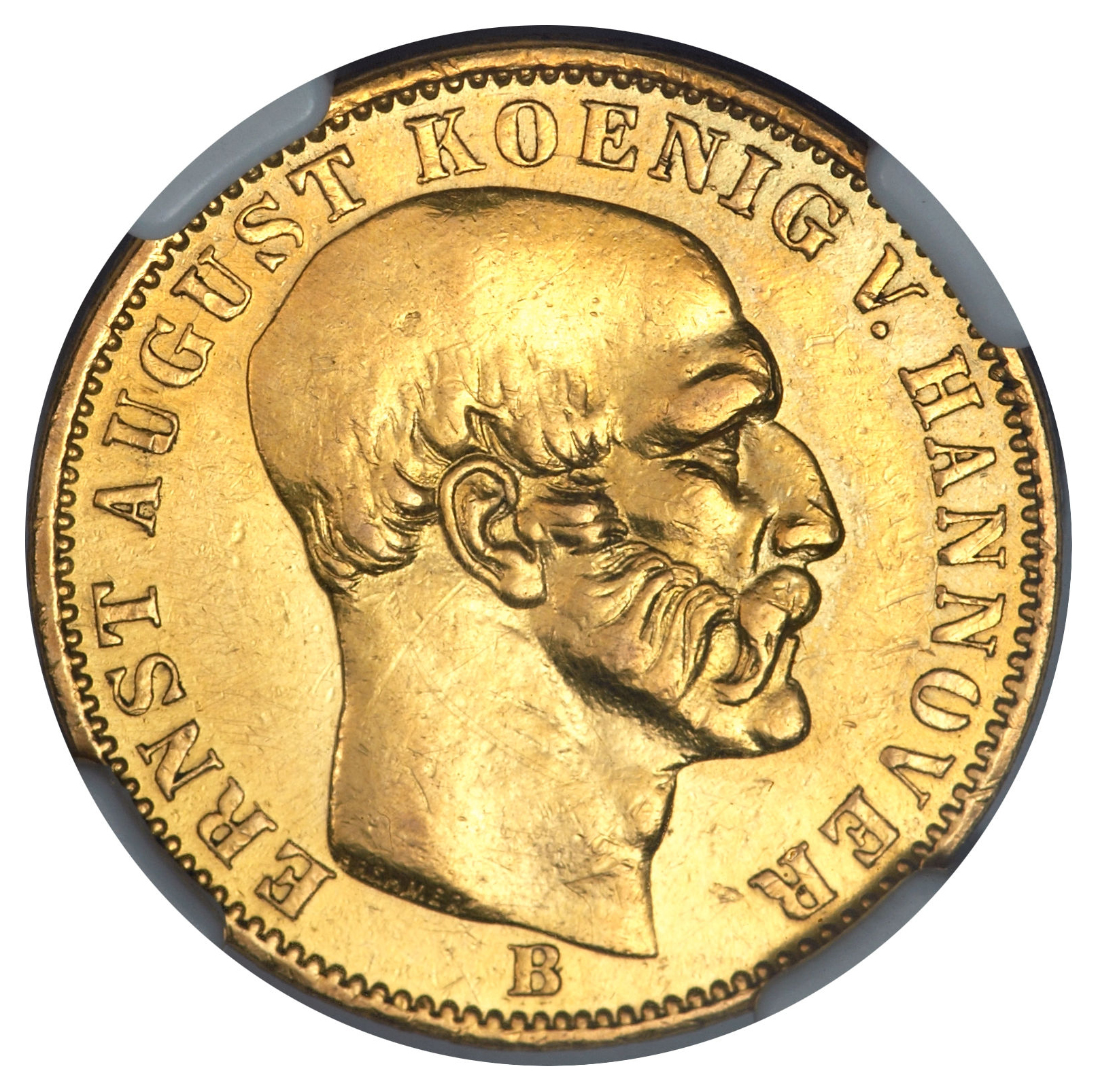 German States Hannover Ernst August 5 Taler 1849-B (obv) (3032-24795) Welter 3127.